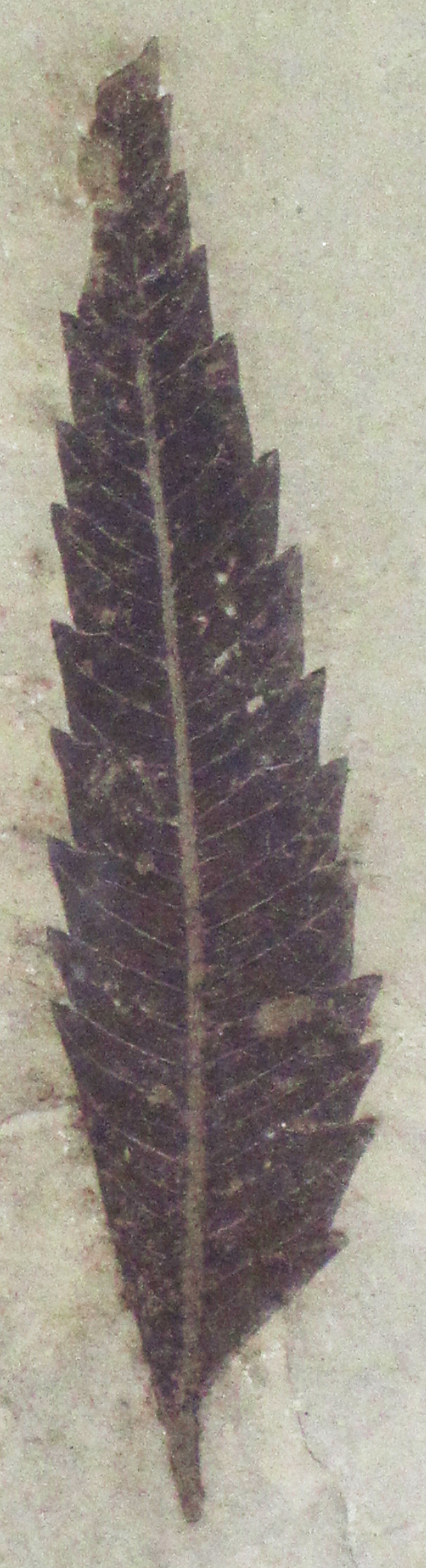 Rhus nigricans (Lesquereux, 1871) - fossil leaf from the Eocene of Utah, USA. This species is also known as Koelreuteria nigricans. Plants are multicellular, photosynthesizing eucaryotes. Most species occupy terrestrial environments, but they also occur in freshwater and saltwater aquatic environments. The oldest known land plants in the fossil record are Ordovician to Silurian. Land plant body fossils are known in Silurian sedimentary rocks - they are small and simple plants (e.g., Cooksonia). Fossil root traces in paleosol horizons are known in the Ordovician. During the Devonian, the first trees and forests appeared. Earth's initial forestation event occurred during the Middle to Late Paleozoic. Earth's continents have been partly to mostly covered with forests ever since the Late Devonian. Occasional mass extinction events temporarily removed much of Earth's plant ecosystems - this occurred at the Permian-Triassic boundary (251 million years ago) and the Cretaceous-Tertiary boundary (65 million years ago). The most conspicuous group of living plants is the angiosperms, the flowering plants. They first unambiguously appeared in the fossil record during the Cretaceous. They quickly dominated Earth's terrestrial ecosystems, and have dominated ever since. This domination was due to the evolutionary success of flowers, which are structures that greatly aid angiosperm reproduction. The fossil leaf shown here is from an extinct arborescent angiosperm - it's from a sumac tree. Classification: Plantae, Angiospermophyta, Sapindales, Anacardiaceae Stratigraphy: undisclosed, but very likely the Green River Formation, Eocene Locality: undisclosed site in Utah, USA